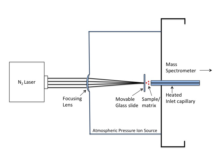 Schematic of LSI